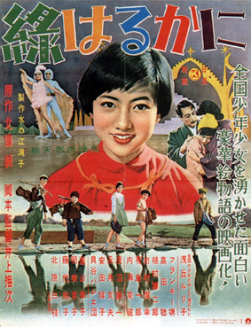 Movie poster for 1955 Japanese movie (緑はるかに Midori haruka ni) or Roku haruka ni.